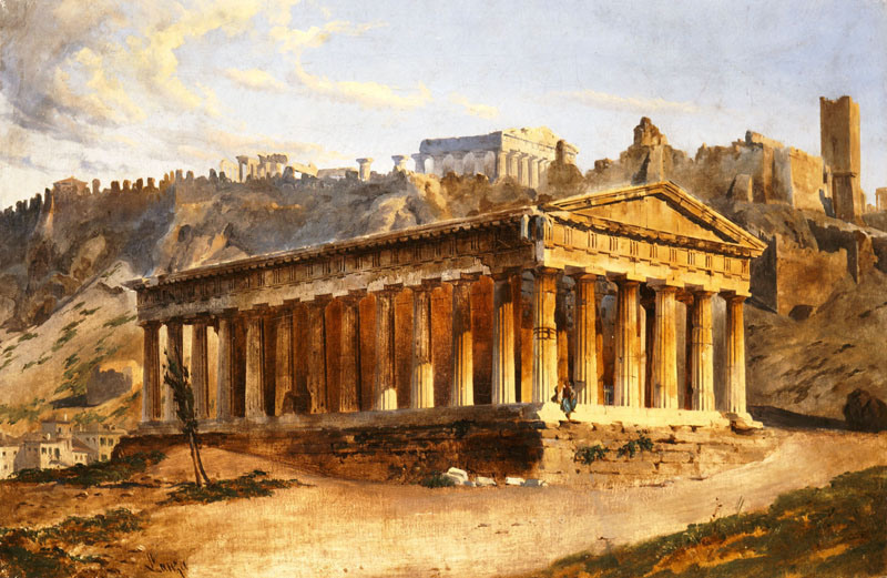 Temple of Hephaestus, Athens